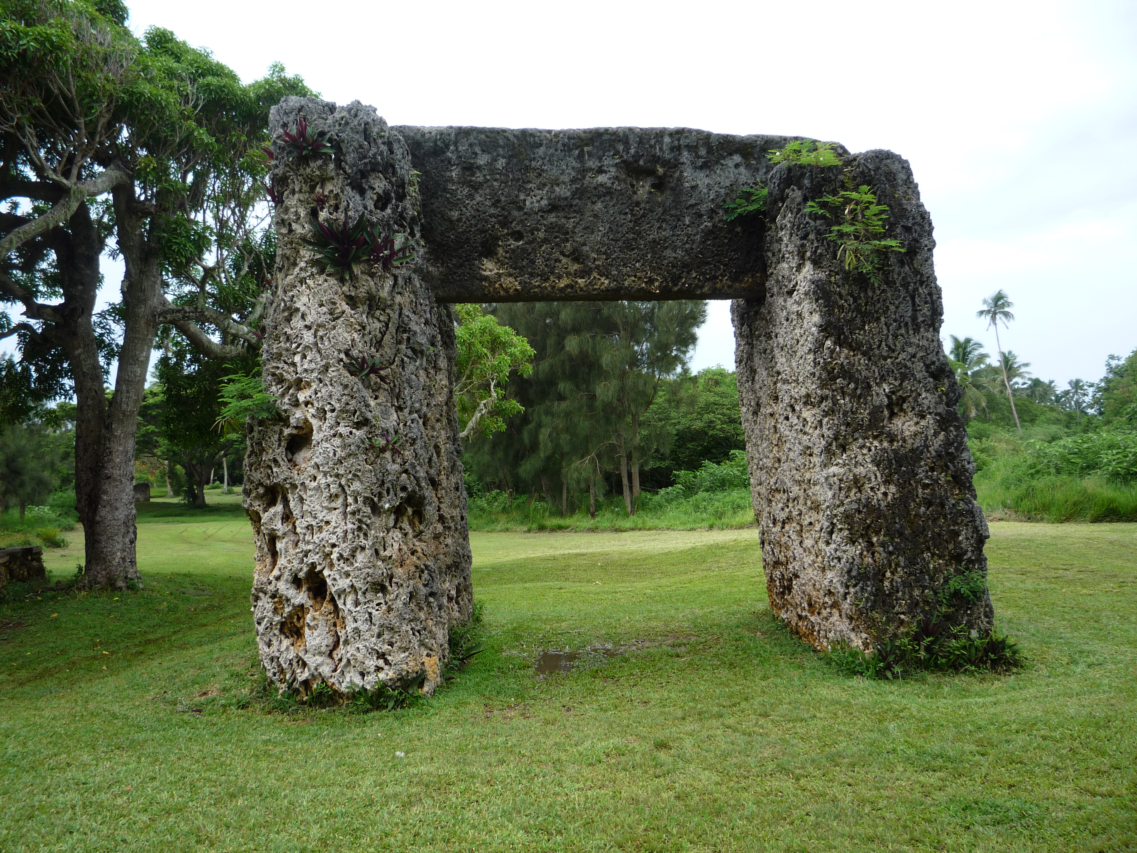 Ha'amonga 'a Maui